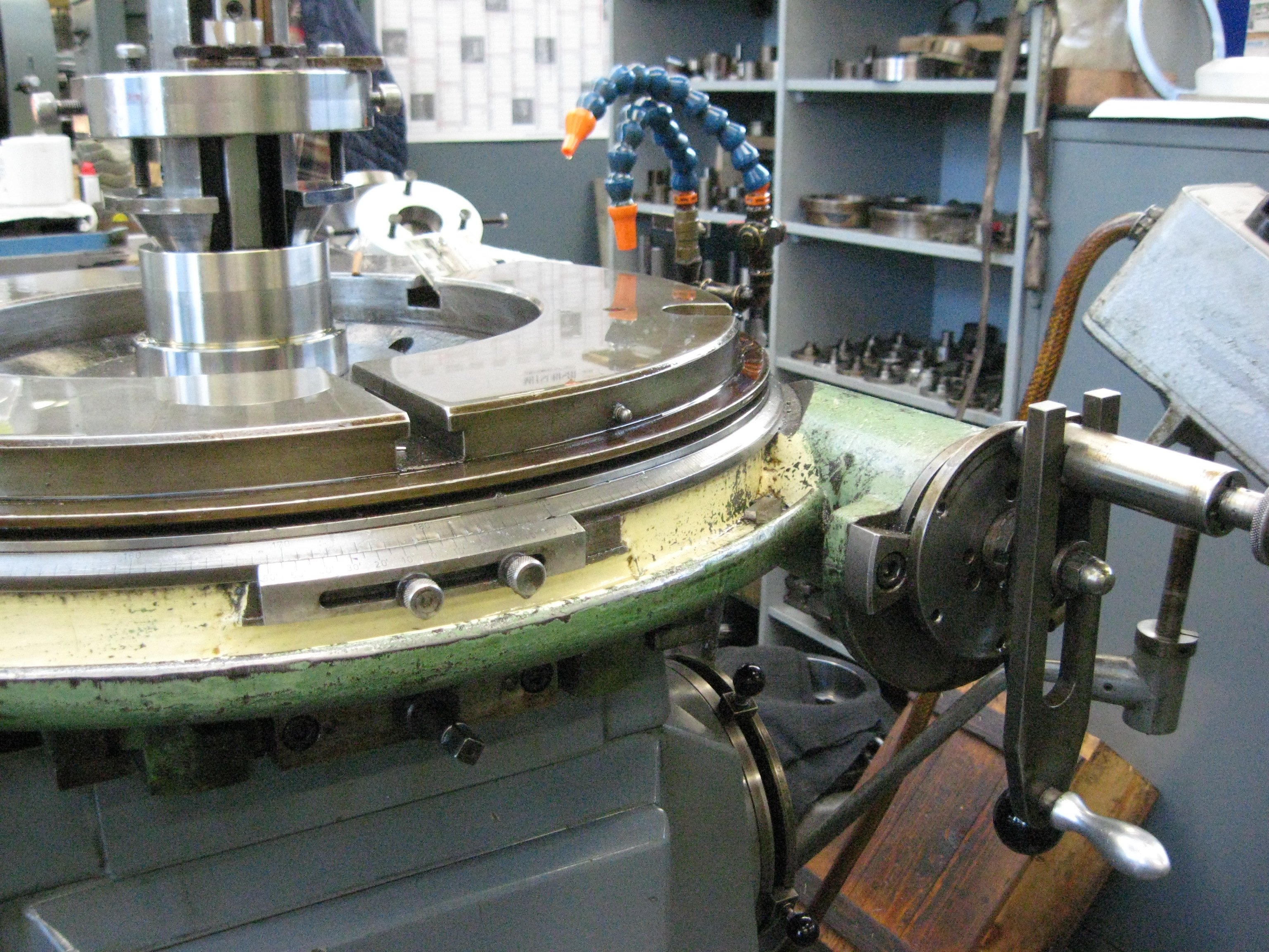 Rotary Table of a keyway machine.